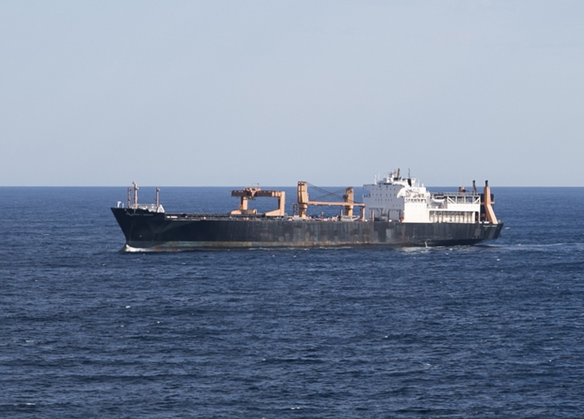 The U.S. Military Sealift Command container and roll-on/roll-off ship USNS PFC Eugene A. Obregon (T-AK-3006), participates in a group sail during exercise "Turbo Activation" in the Atlantic Ocean on 24 September 2019. "Turbo Activation" is a large-scale sealift readiness exercise series, which rapidly activates a mix of Military Sealift Command and U.S. Department of Transportations Maritime Administration ships on the U.S. East, West, and Gulf Coasts. The exercise shall provide an assessment of the readiness of U.S. sealift forces, while also stressing the underlying support network involved in maintaining, manning and operating the nations ready sealift forces.